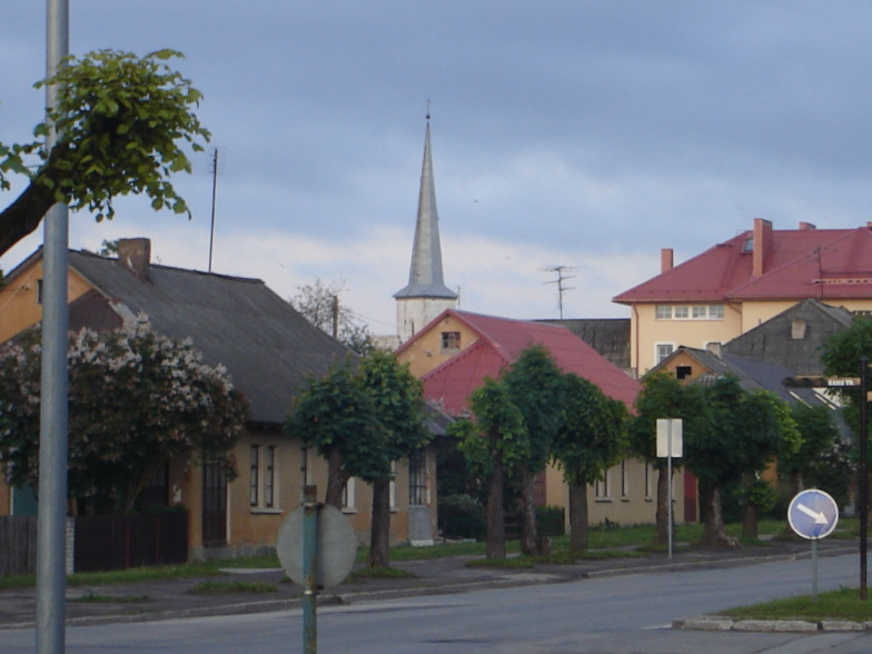 Town of Jõhvi, Estonia. Rakvere street.